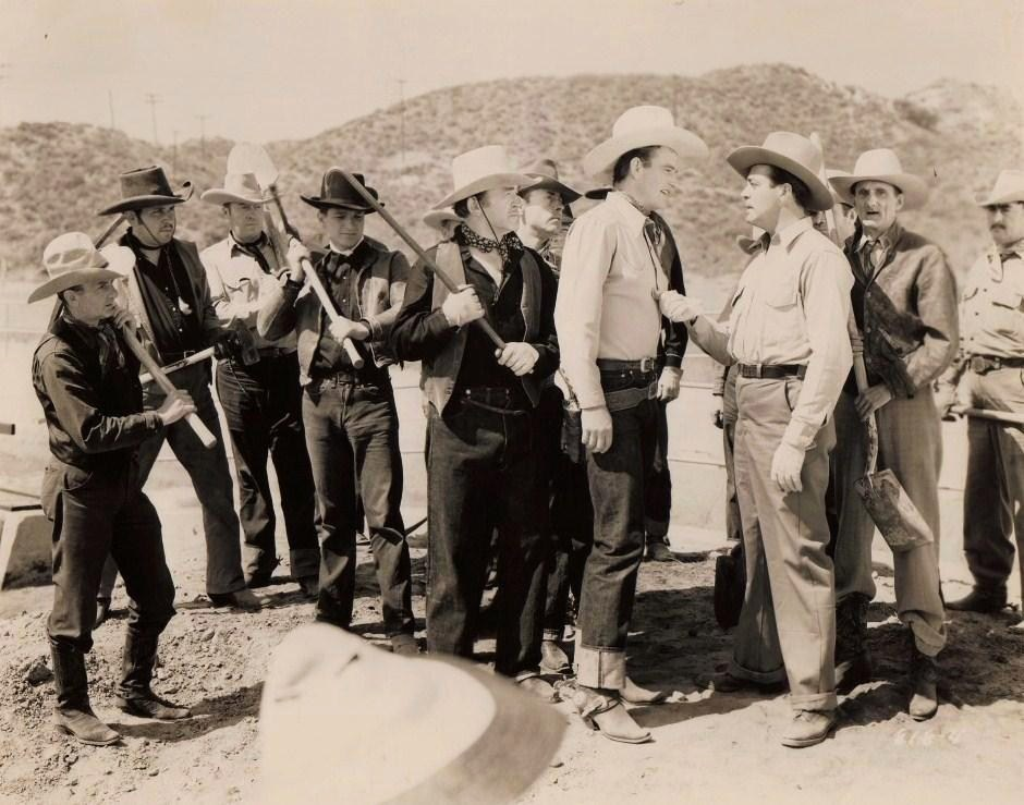 Bud Osborne (center) behind John Wayne in New Frontier - publicity still (cropped)